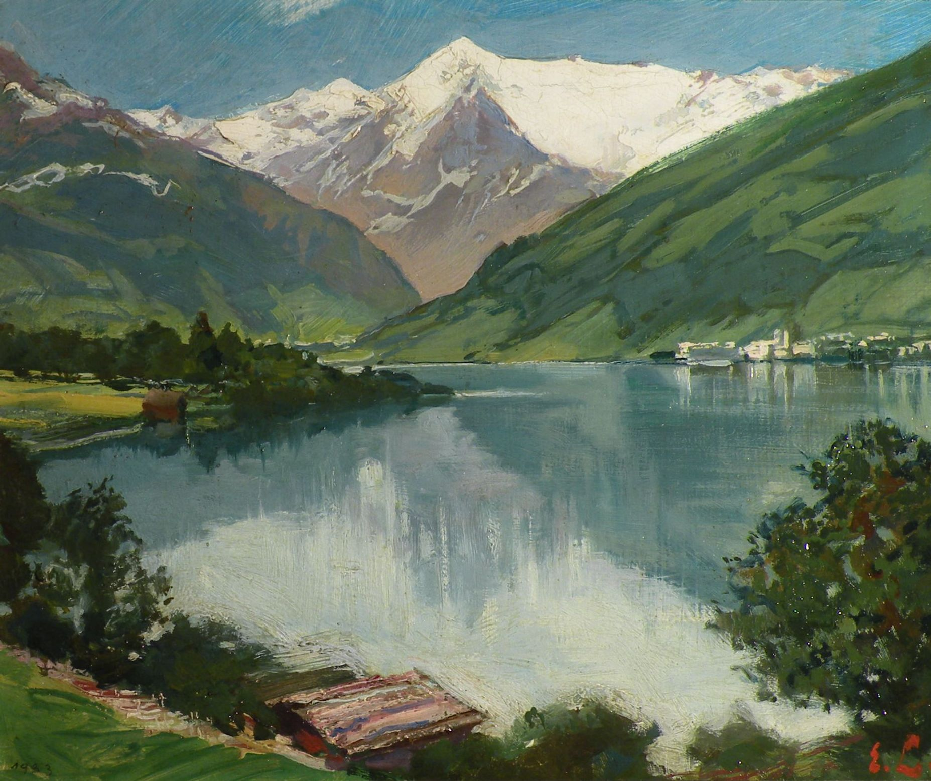 Ernst Liebenauer: Am Zeller See (Oil, 30x25cm)